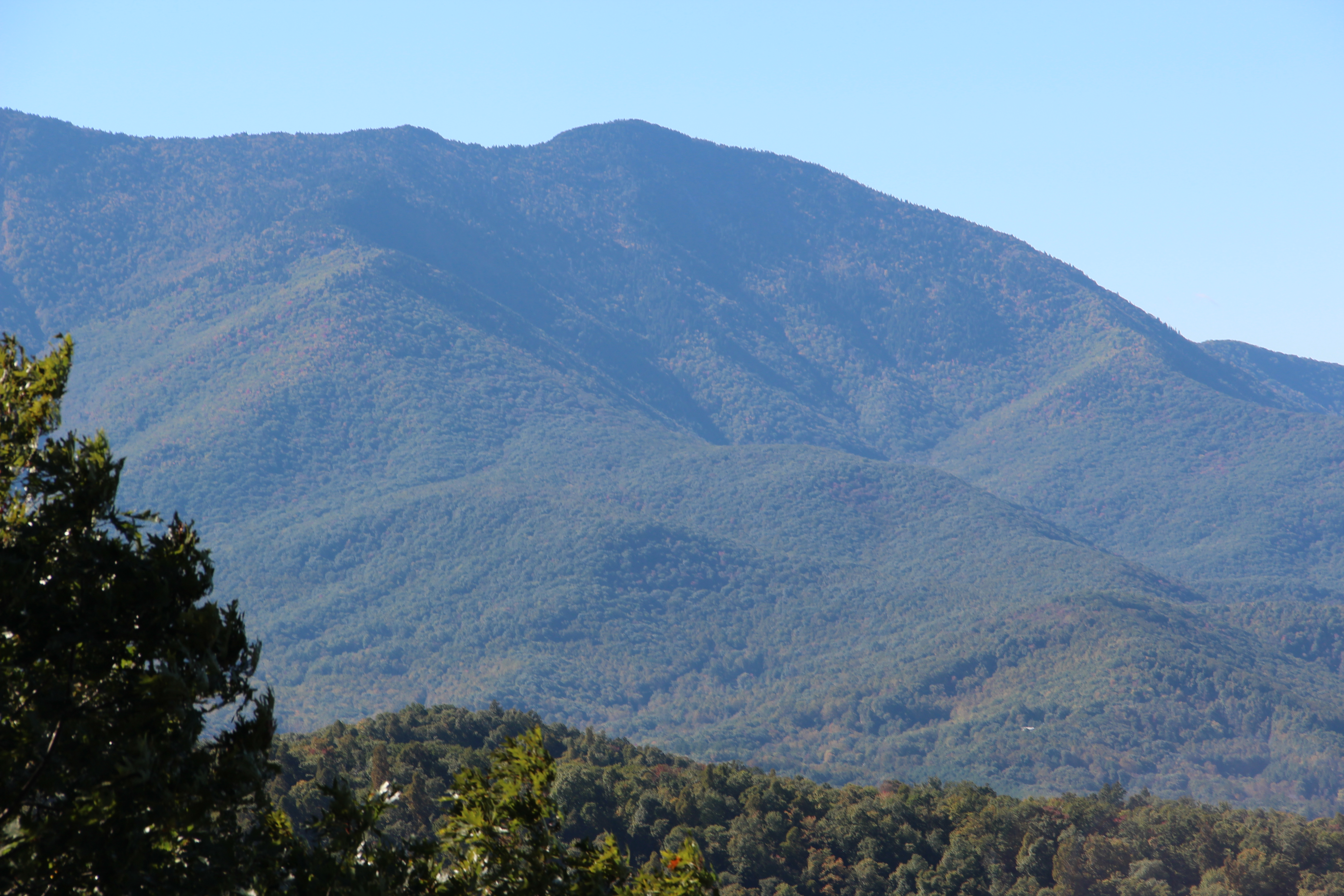 Celo Knob from Three Knobs Overlook, October 2016